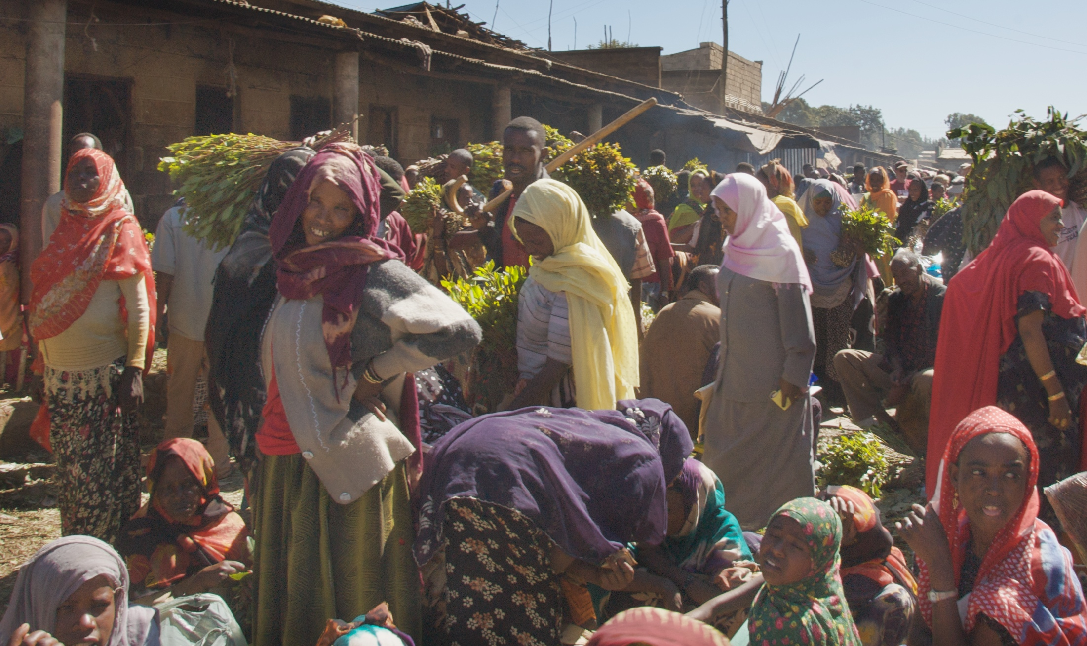 The tropical evergreen plant called "chat" in Ethiopia (Catha edulis, aka qatt, jaad, or khat) has been widely used as a stimulant in east Africa and southern Arabia since antiquity. Chat is legal in several countries, including Ethiopia and some of its neighbors. Chat is illegal in other countries, including the U.S. Chat users prefer to chew the newest leaves from freshly-harvested stems. For this reason, fresh chat stems are bought and sold at daily markets. The market pictured here is near Harar, in southeastern Ethiopia.